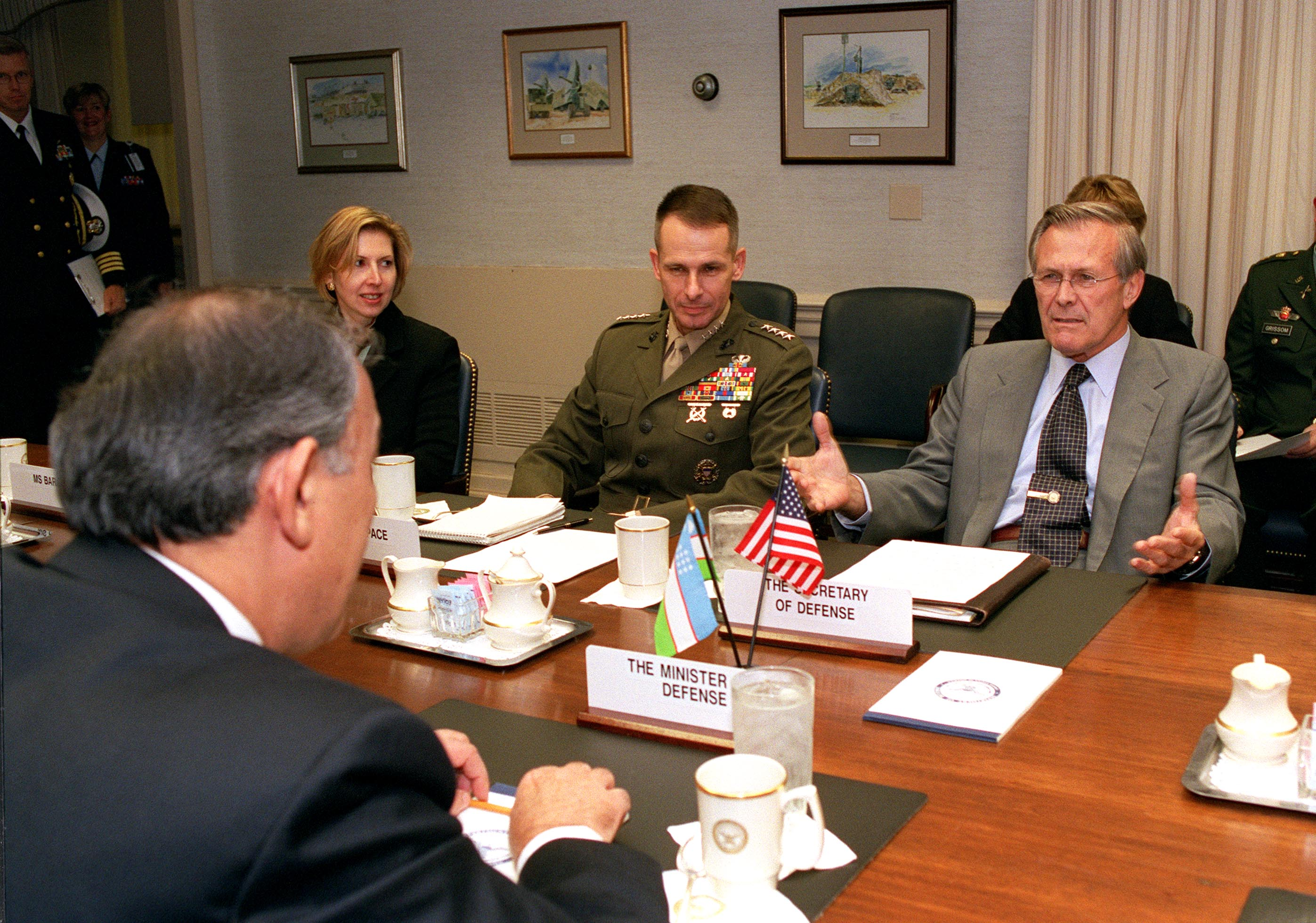 Secretary of Defense Donald H. Rumsfeld (right) meets with Minister of Defense Kodir Ghulomov (left foreground), of Uzbekistan, in the Pentagon on Nov. 30, 2001. The two defense leaders are meeting to discuss a range of bilateral security issues including regional support for the war on terrorism. Deputy Assistant Secretary of Defense for Eurasia Mira Baratta and Vice Chairman of the Joint Chiefs of Staff Gen. Peter Pace, U.S. Marine Corps, joined Rumsfeld and Ghulomov in the talks.